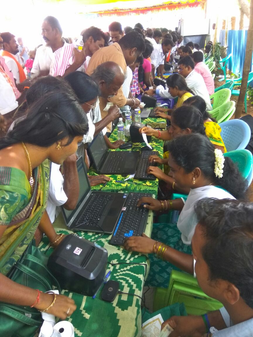 Moi-Tech Staffs Collecting Money on Marriage Function